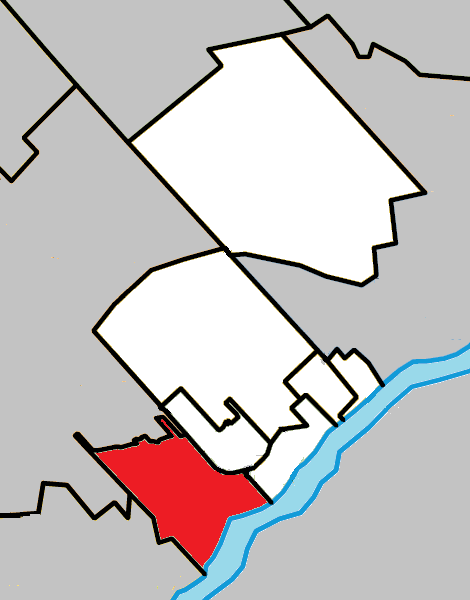 Location of Boisbriand, Quebec within Thérèse-De Blainville Regional County Municipality.